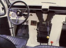 UMM Cournil 4x4 interior